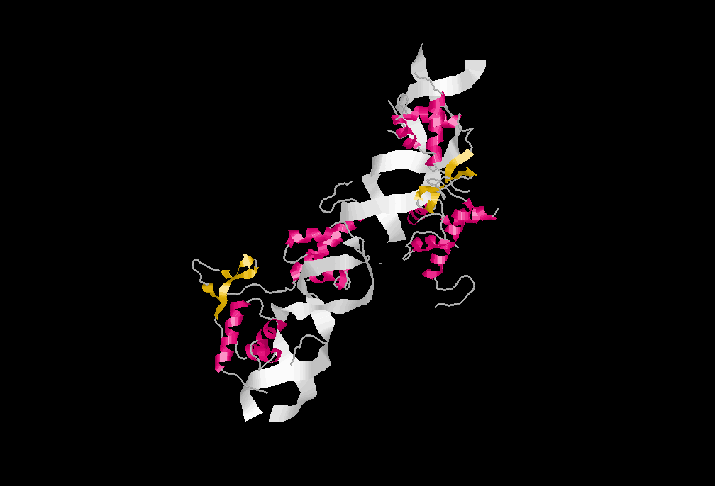 The crystal structure of the DNA-binding domain of yeast RAP1 in complex with telomeric DNA